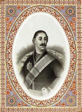 Prince Yulon of Georgia, son of King Heraclius II of Georgia